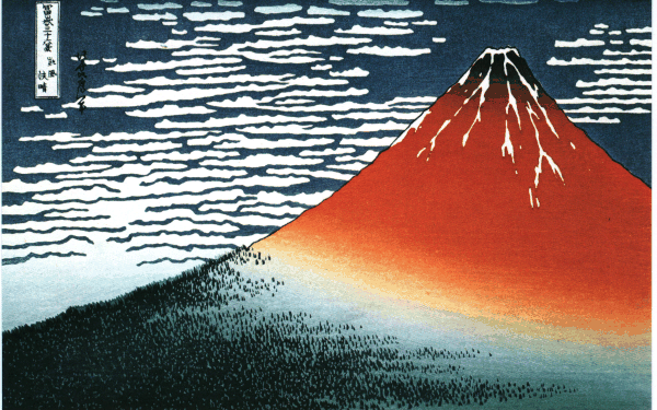 Part of the series Thirty-six Views of Mount Fuji, no. 33.